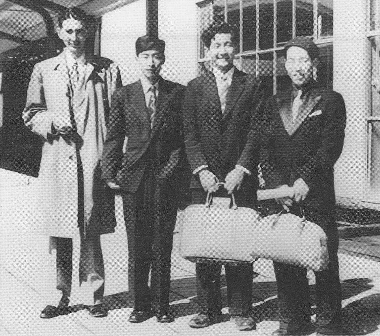 The photo of Akeo Watanabe, Hiroyuki Iwaki and Naozumi Yamamoto, that was taken around 1953.